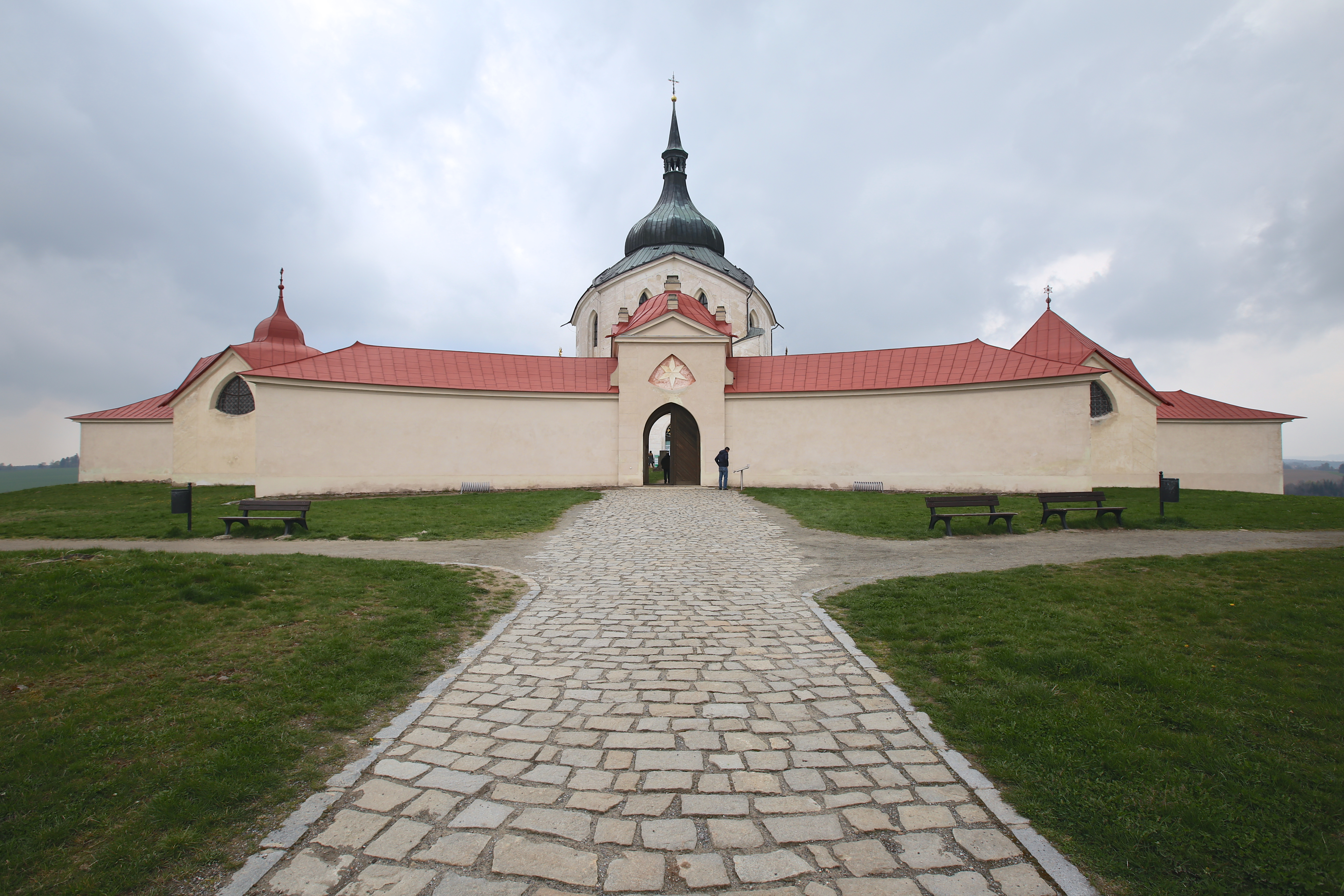 Pilgrimage Church of St John of Nepomuk at Zelena Hora, Czech Republic